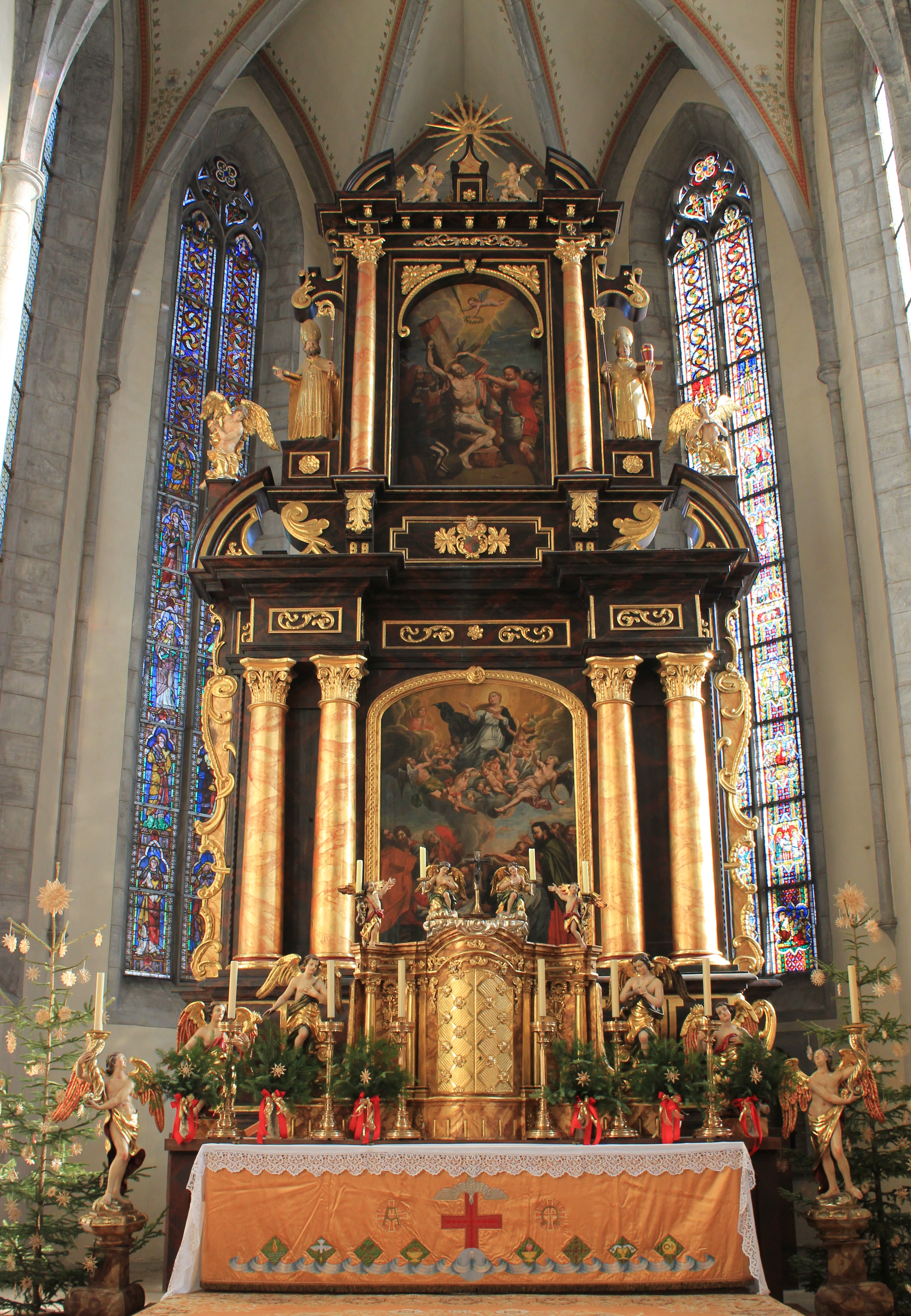 Parish church of Friesach: Main altar